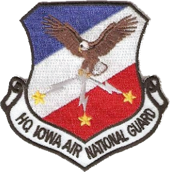 Iowa Air National Guard - Emblem